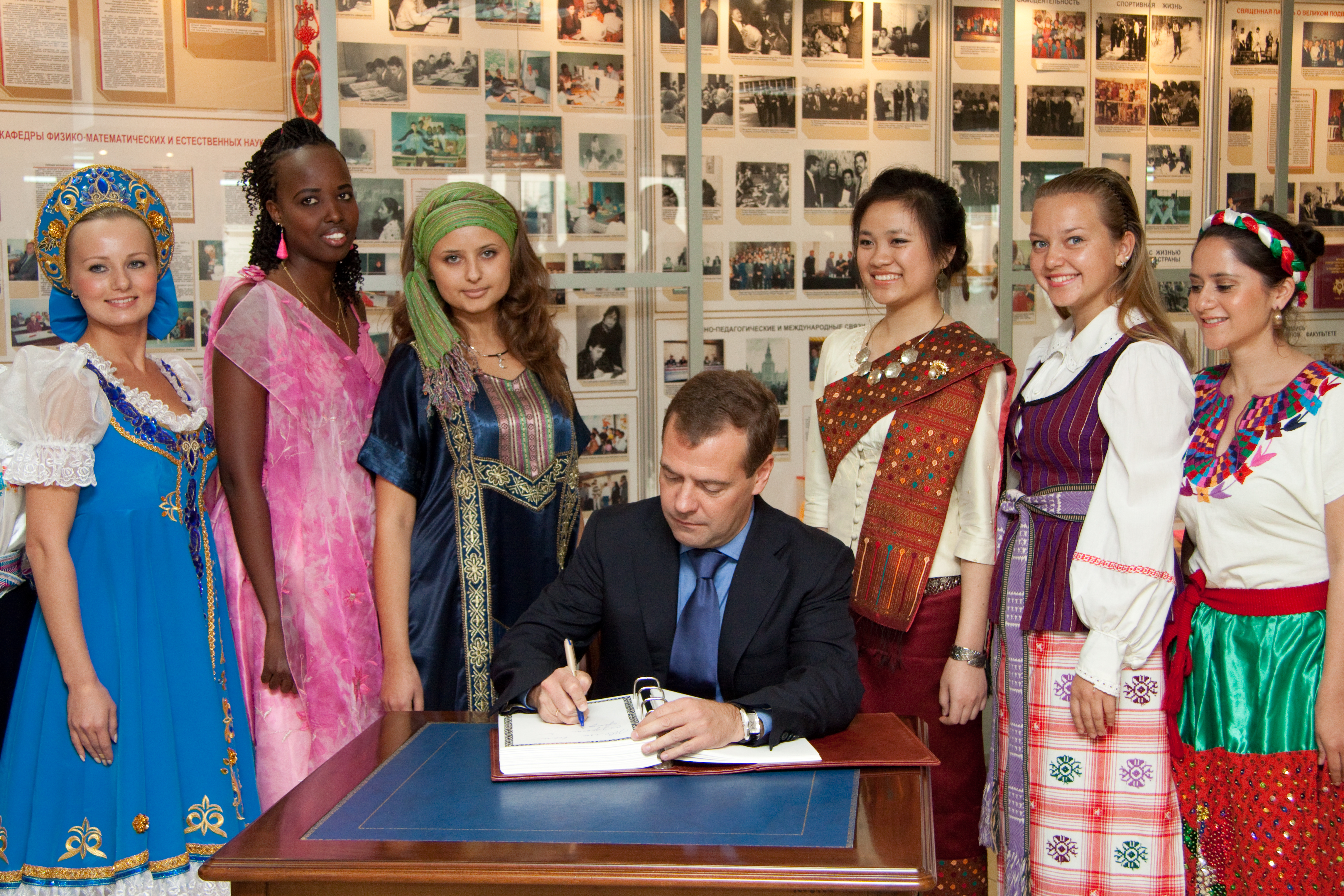 Dmitriy Medvedev visiting Peoples' Friendship University of Russia.22.09.2012